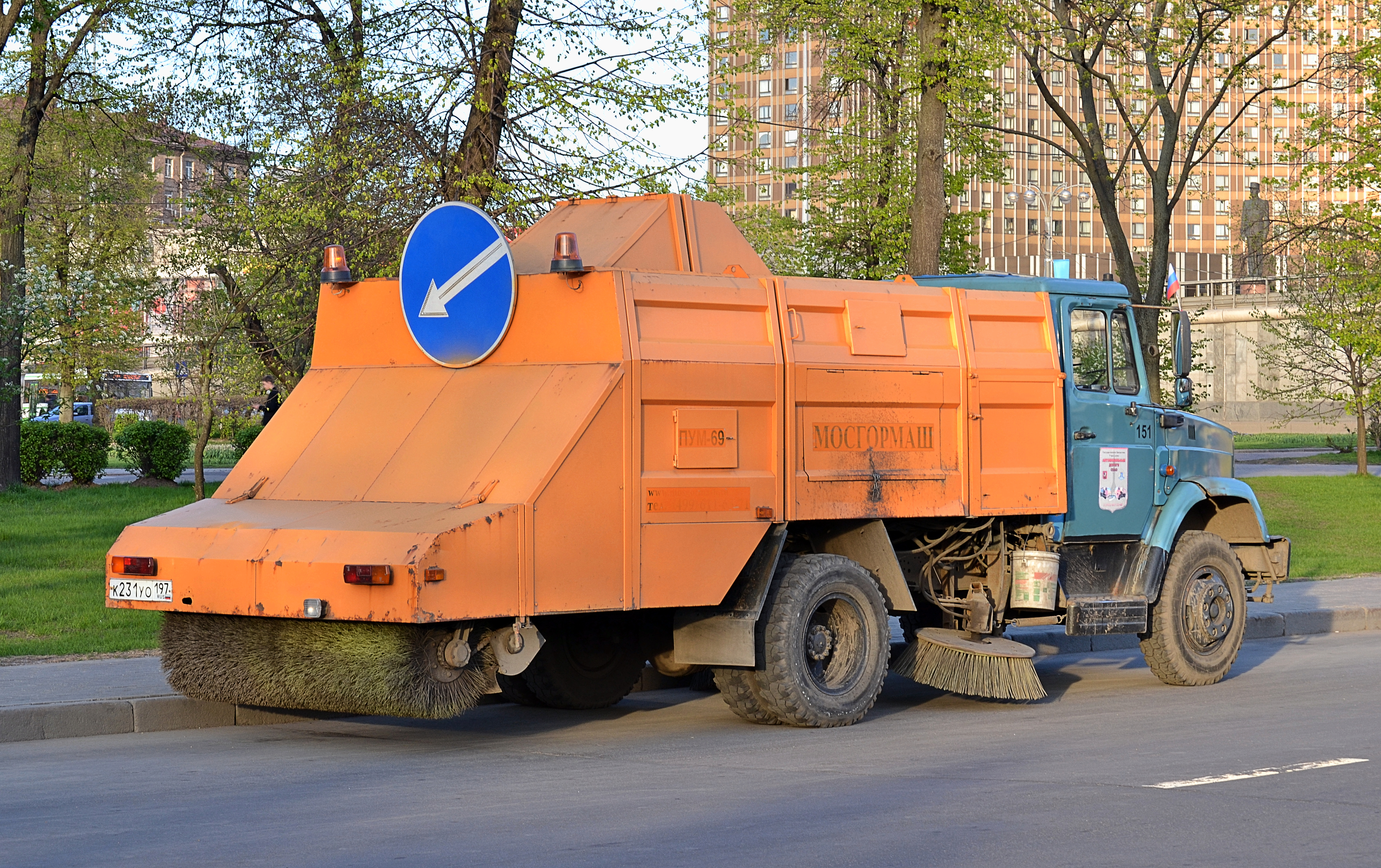 A PUM-69 street sweeper (assembling by Mosgormash, Moscow, Russia) based on a ZiL-433362 (ZiL, Moscow, Russia). The photo was taken in Moscow, near the metro station VDNKh (1st Poperechny Proezd); the building of the Cosmos Hotel is seen in the background.